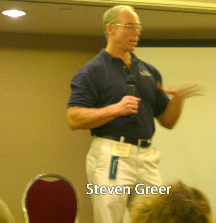 Dr. Steven M. Greer (Disclosure Project / CSETI / SEAS Power) @ the Conscious Life Expo